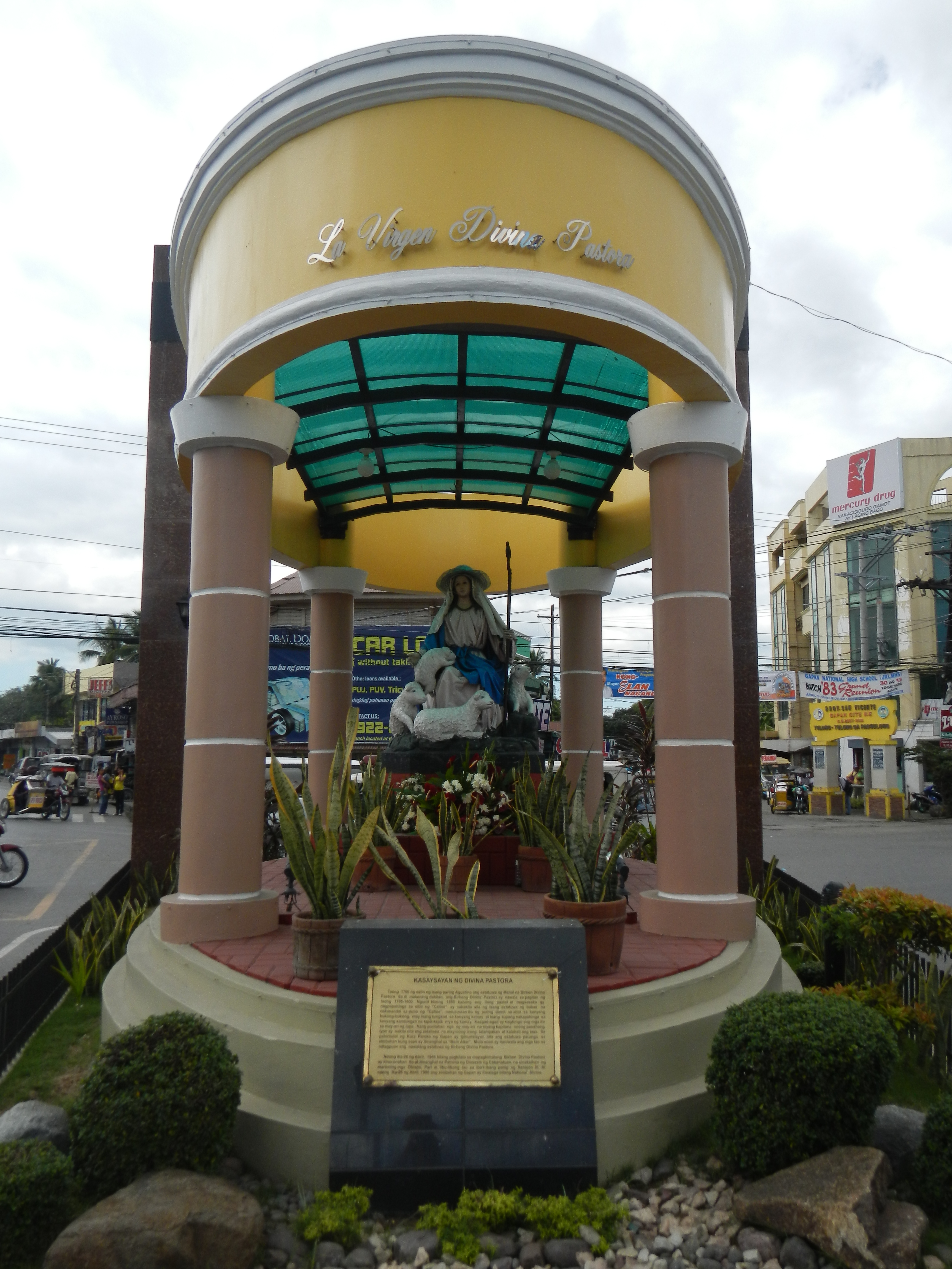 Welcome Arch and Divina Pastora[1]Gapan City is a fourth class city in the province of Nueva Ecija, Philippines. Gapan is nicknamed the "Footwear Capital of the North", and it is an inseparable part of the Rice Granary of the Philippines. According to the 2010 census, it has a population of 101,488 people in 18,200 households. It has a land area of 164.44 km².